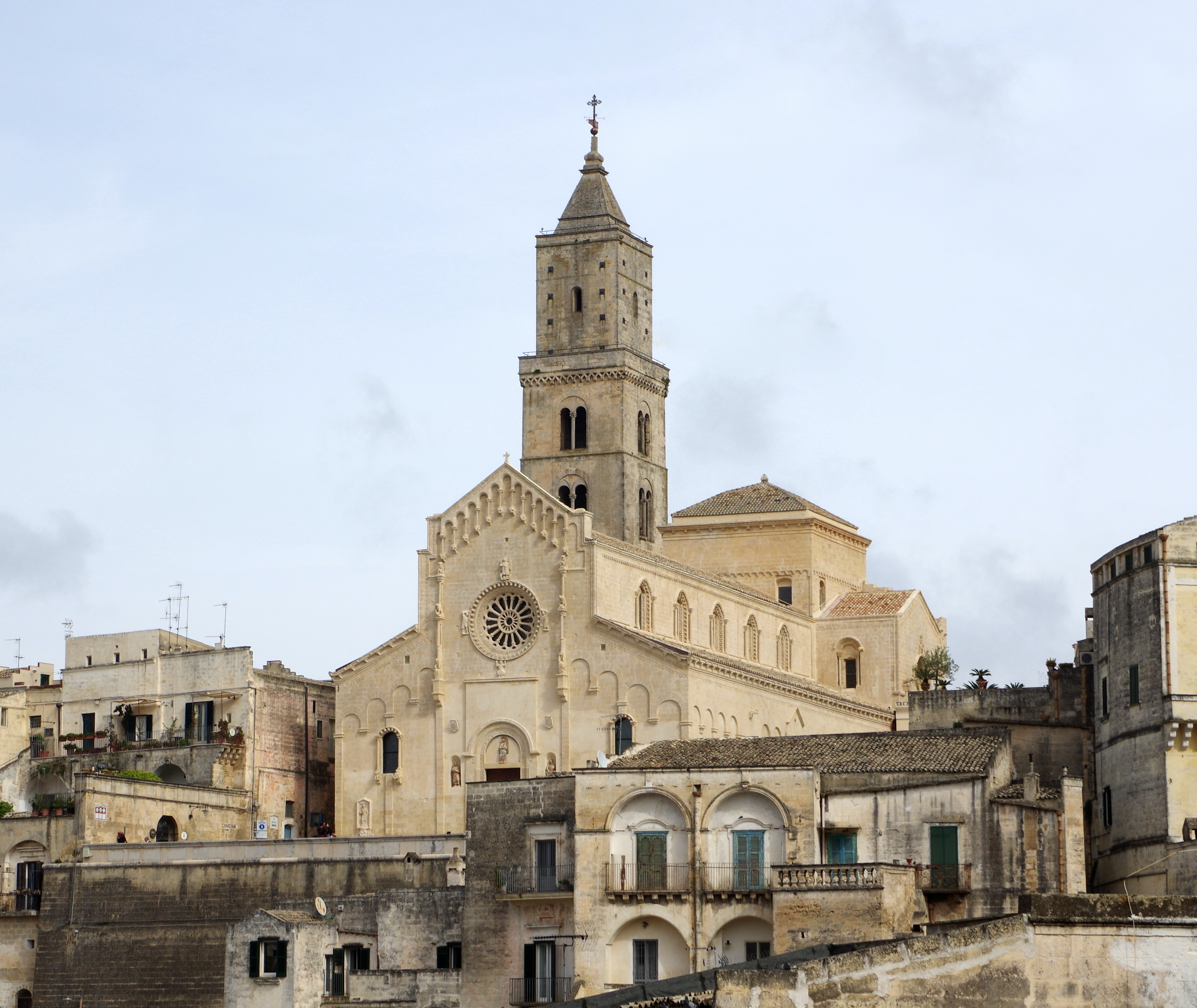 Italy, Matera, view with cathedral